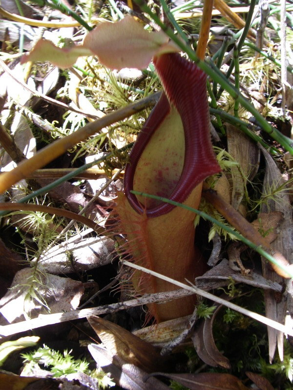 Nepenthes spathulata